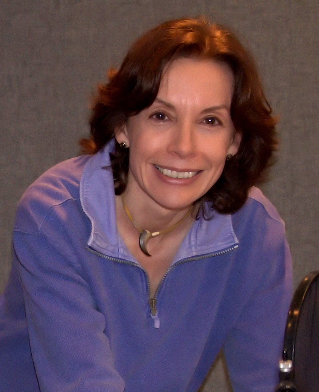 Michelle Paver in September 2010.